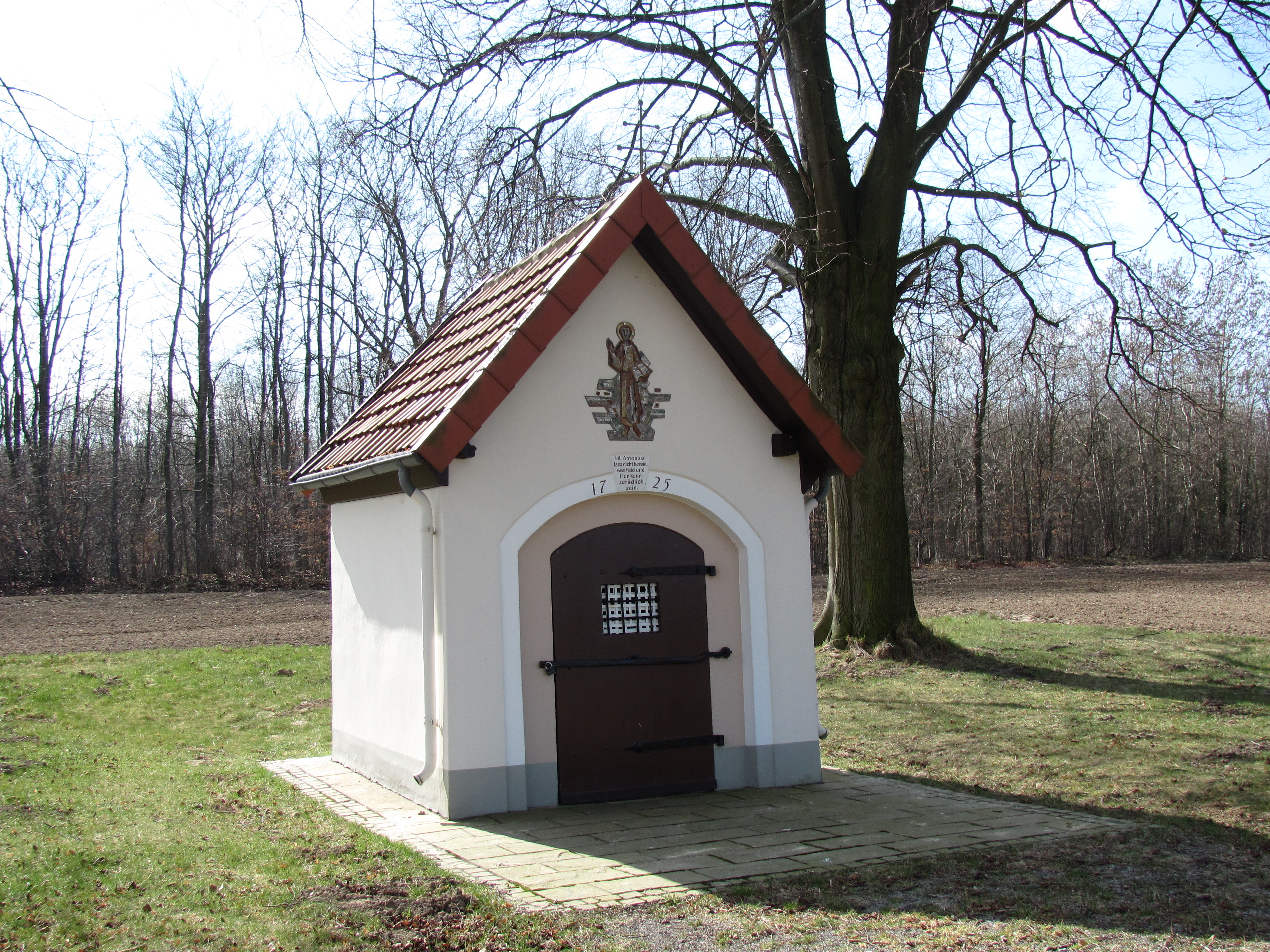 St. Antony's Chapel, Hildesheim-Sorsum, Germany